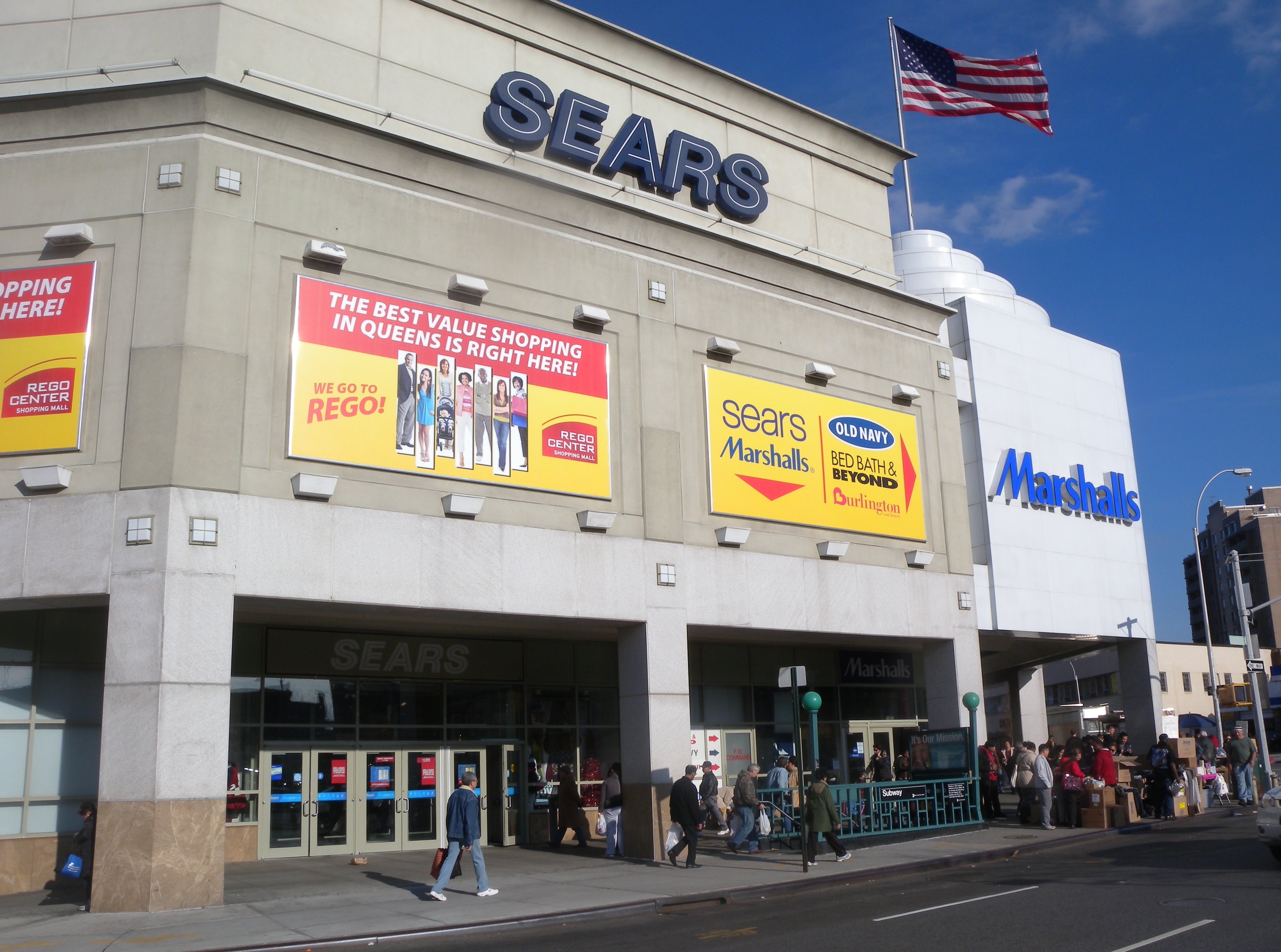 Looking northeast across Queens Blvd at Sears, Marshalls, and IND stair on a sunny early afternoon.